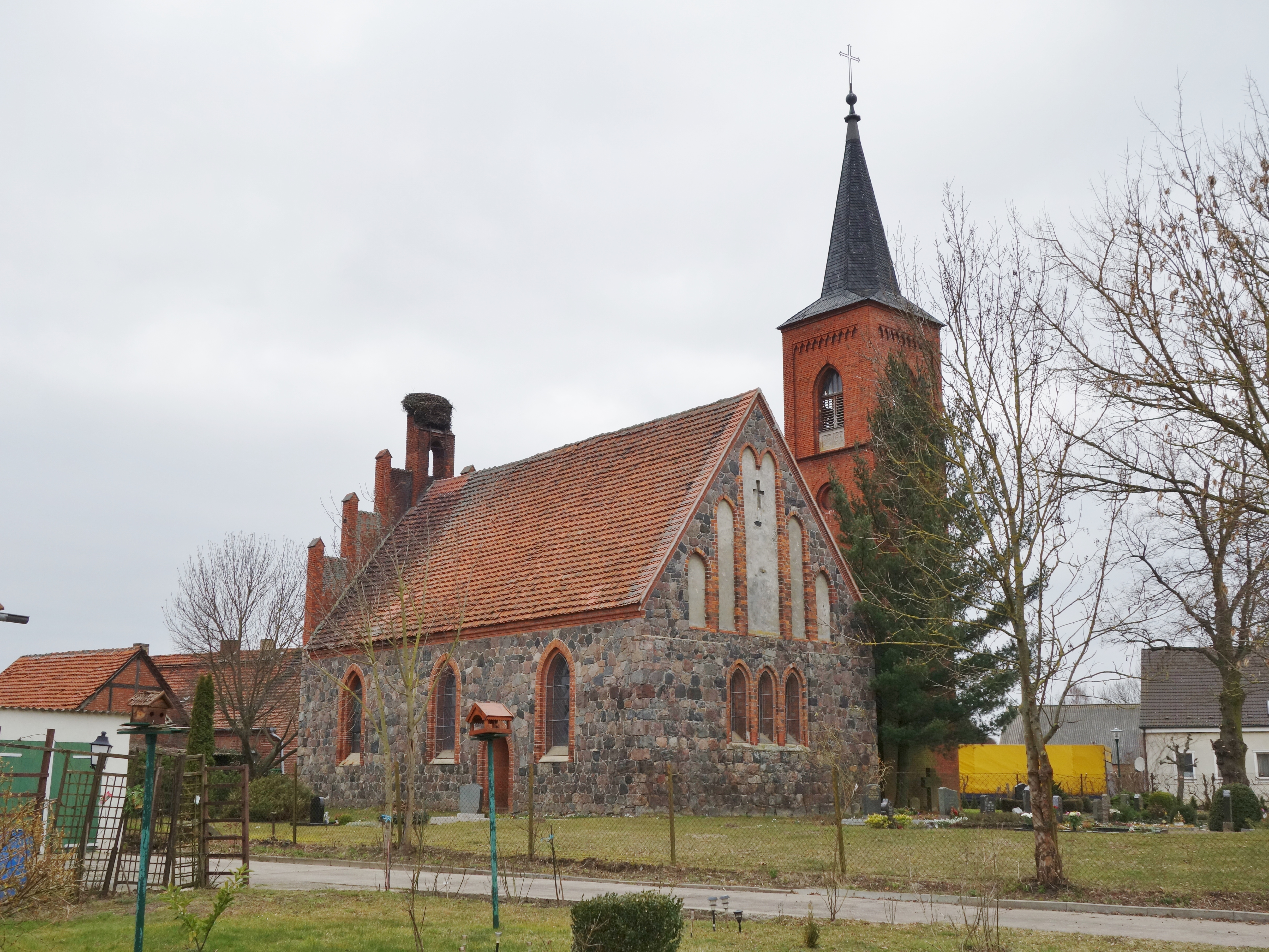 South-eastern view of Gartow church, Wusterhausen/Dosse municipality, Ostprignitz-Ruppin district, Brandenburg state, Germany